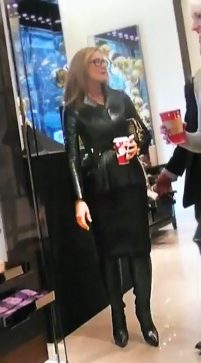 Angela Ahrendts at Burberry's launch of their Chicago flagship